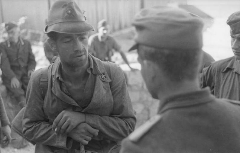 Information added by Wikimedia users.*